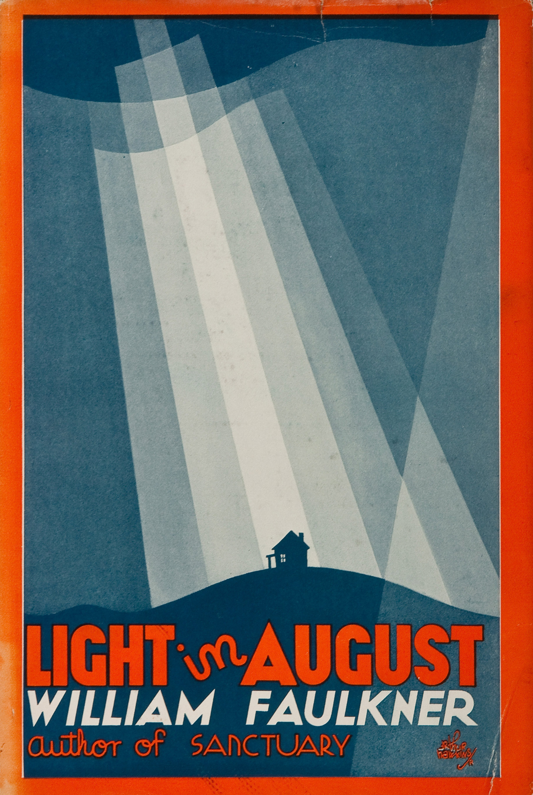 First-edition dust jacket cover of Light in August (1932) by the American author William Faulkner.